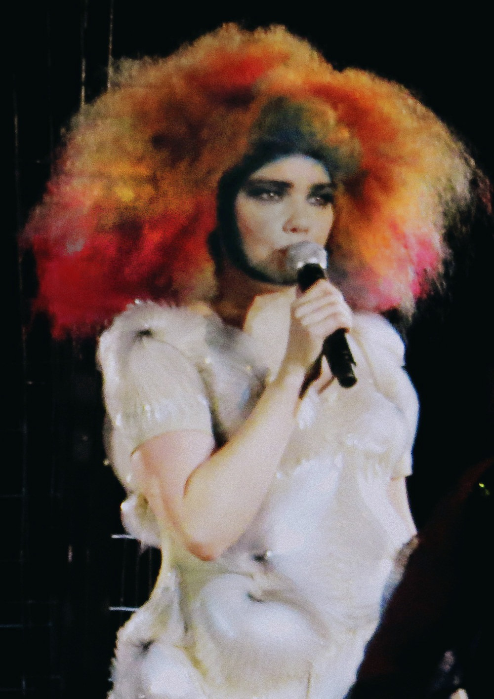 The Icelandic singer-songwriter Björk performs live during the second night of the Biophilia Tour at the Cirque en Chantier in Paris, on 27 February 2013.